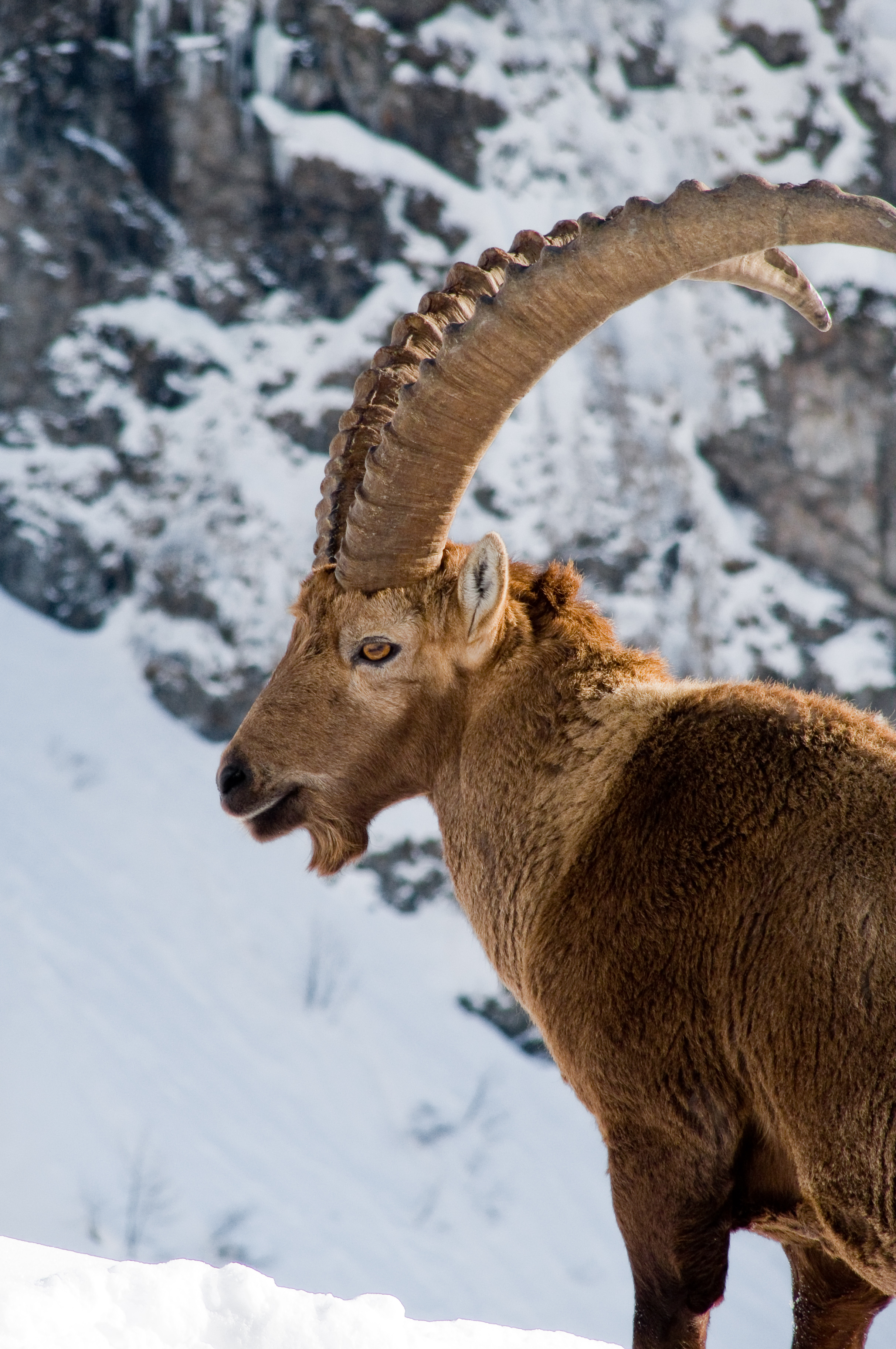 Alpine Ibex (Capra ibex) near Chamonix.